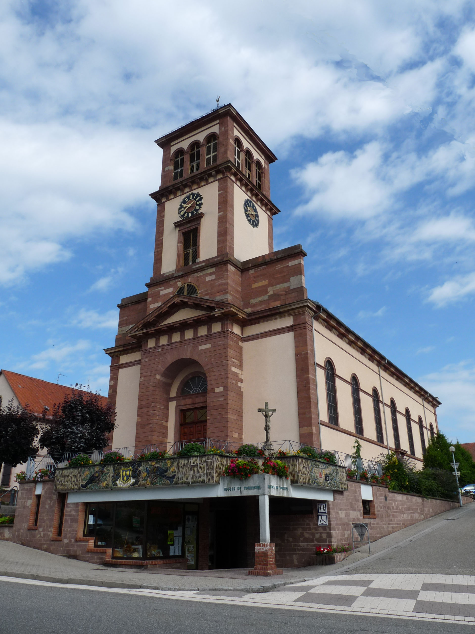 Church in Soufflenheim (Bas-Rhin)